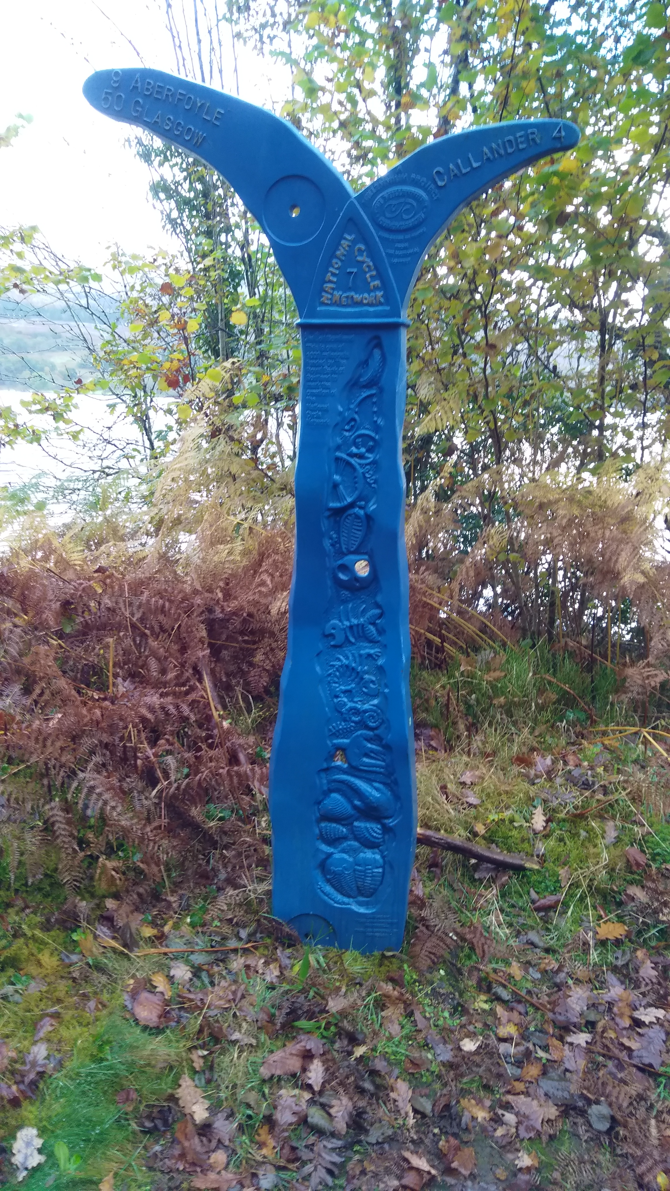 Sign of the National Cycle Network on the shore of Loch Venachar (council area of Stirling, Scotland)